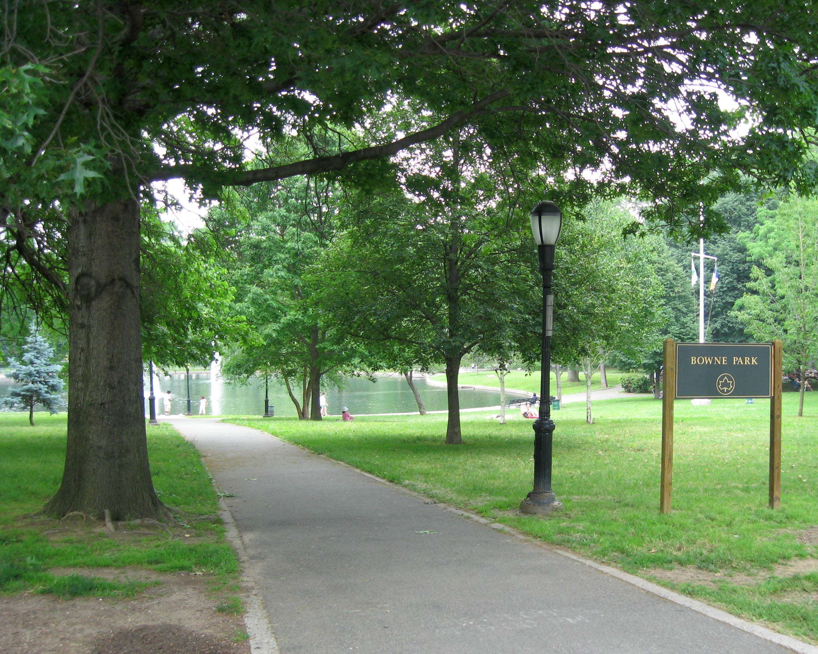 Looking northeast into John Bowne Park in Flushing, Queens on a mostly sunny afternoon.